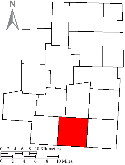 Originally created by the US Census. Modified by myself to highlight the township.